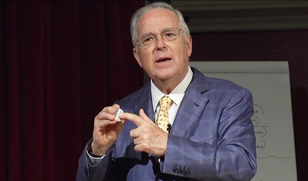 Hugo Salinas Price with Liberty Silver Coin. Presentation by Hugo Salinas Price - Asociación Cívica Mexicana Pro Plata during the Gold & Silver Meeting Madrid 2009.